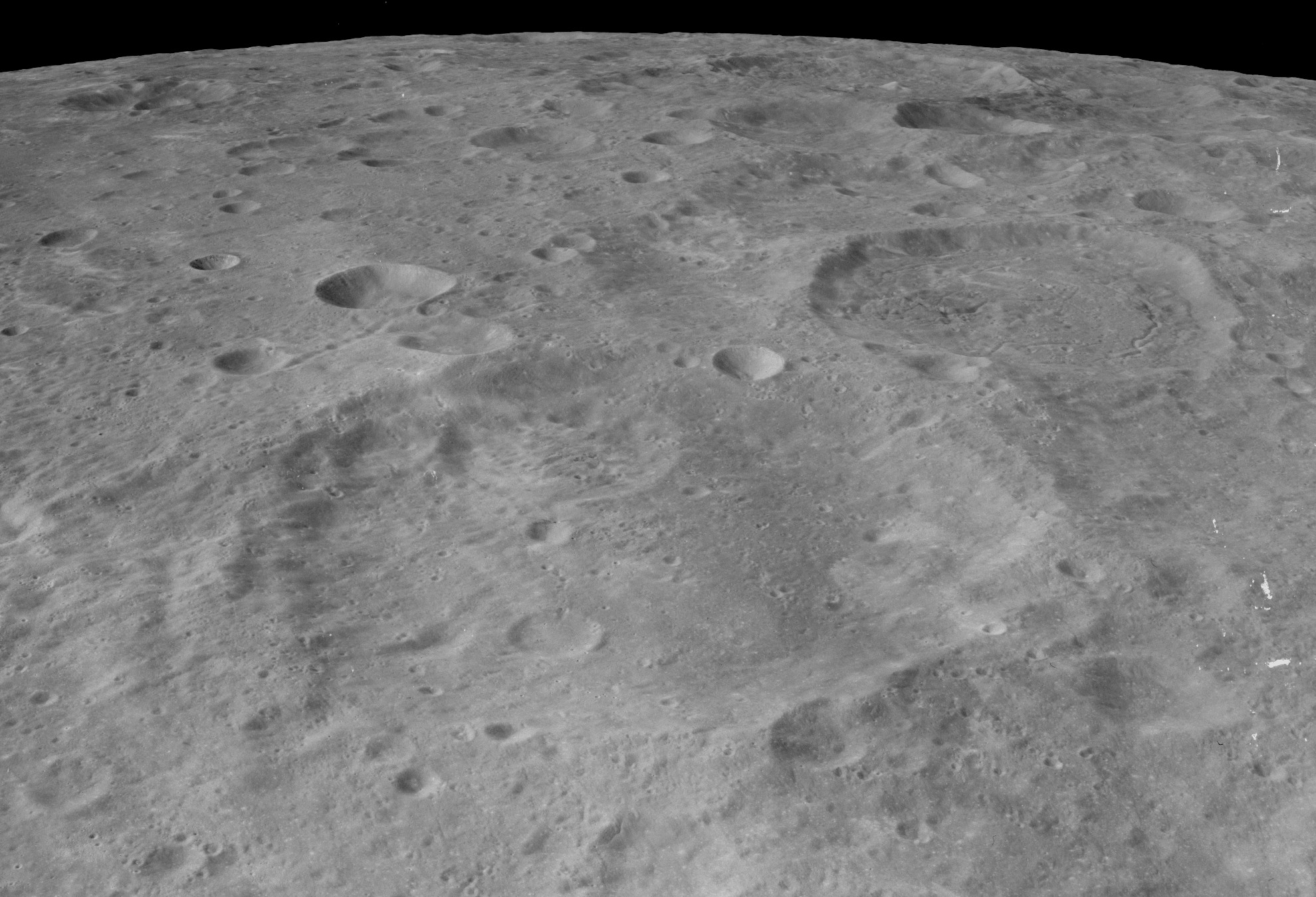 Oblique view of Guyot (center foreground) and Kostinskiy (right of center), on the far side of the moon. Olcott is near horizon. Facing north.